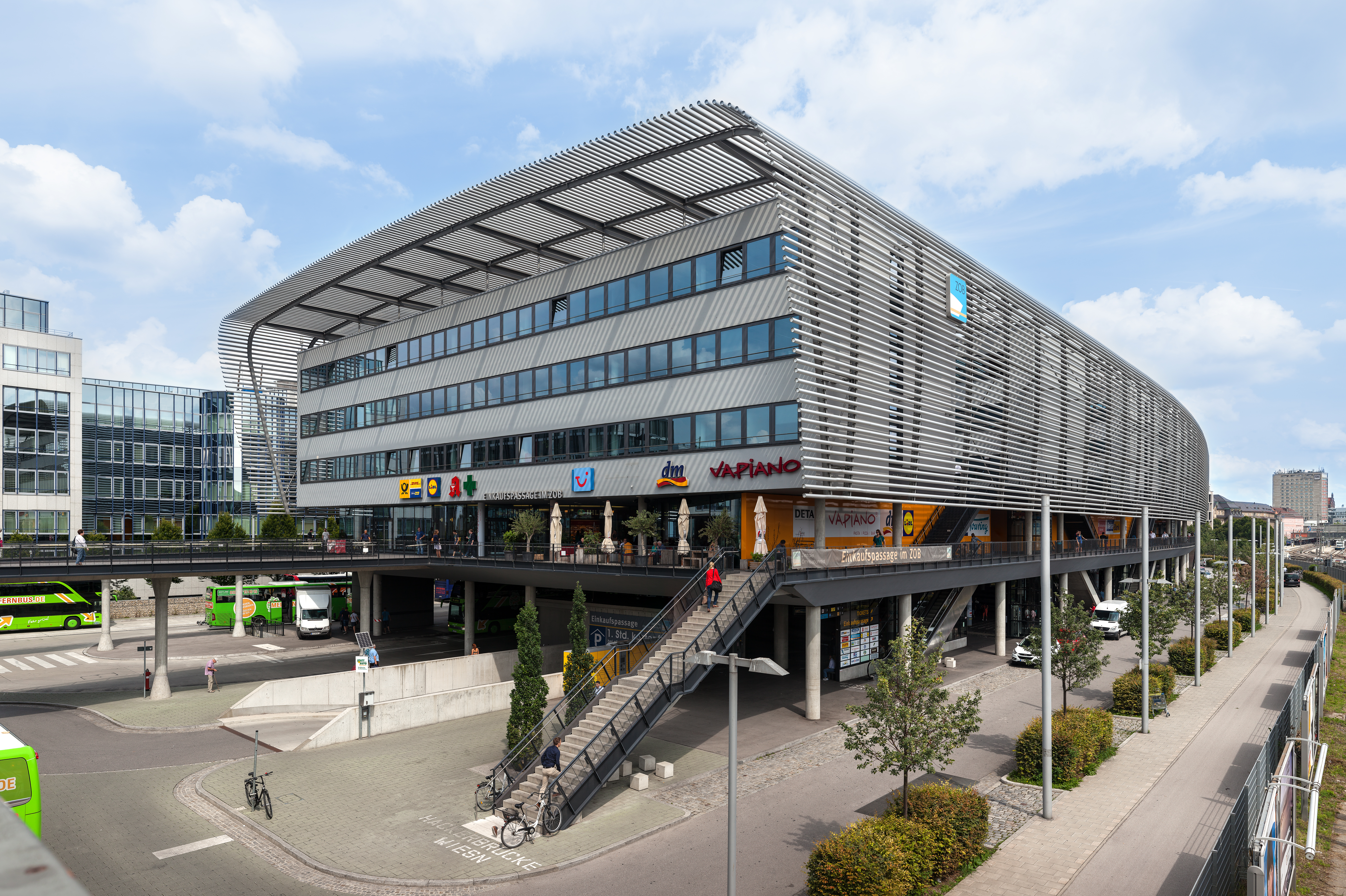 Zentrale Omnibusbahnhof (bus station) in Munich.